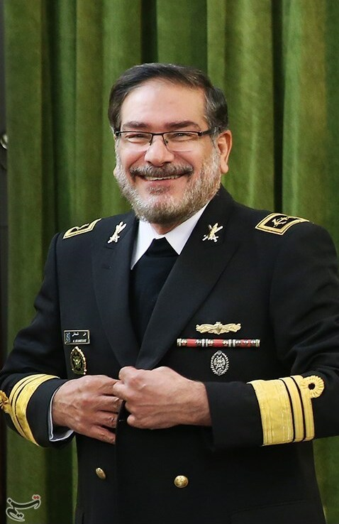 Ali Shamkhani